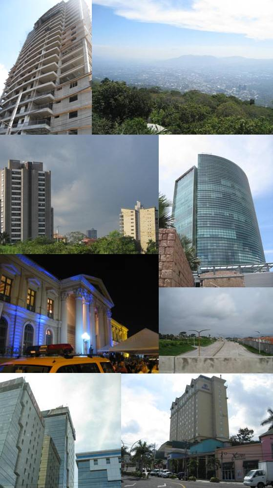 Collage of Pictures of San Salvador mostly recent buildings. From top: Alisios 115(left) Panoramic (right), Capillas 515 and 525(left), World Trade Center Torre Futura(right), National Palace (left) Diego de Holguin Expressway(right), Centro Financiero Telefonica (left), Hilton Princess San Salvador 5-star (right)